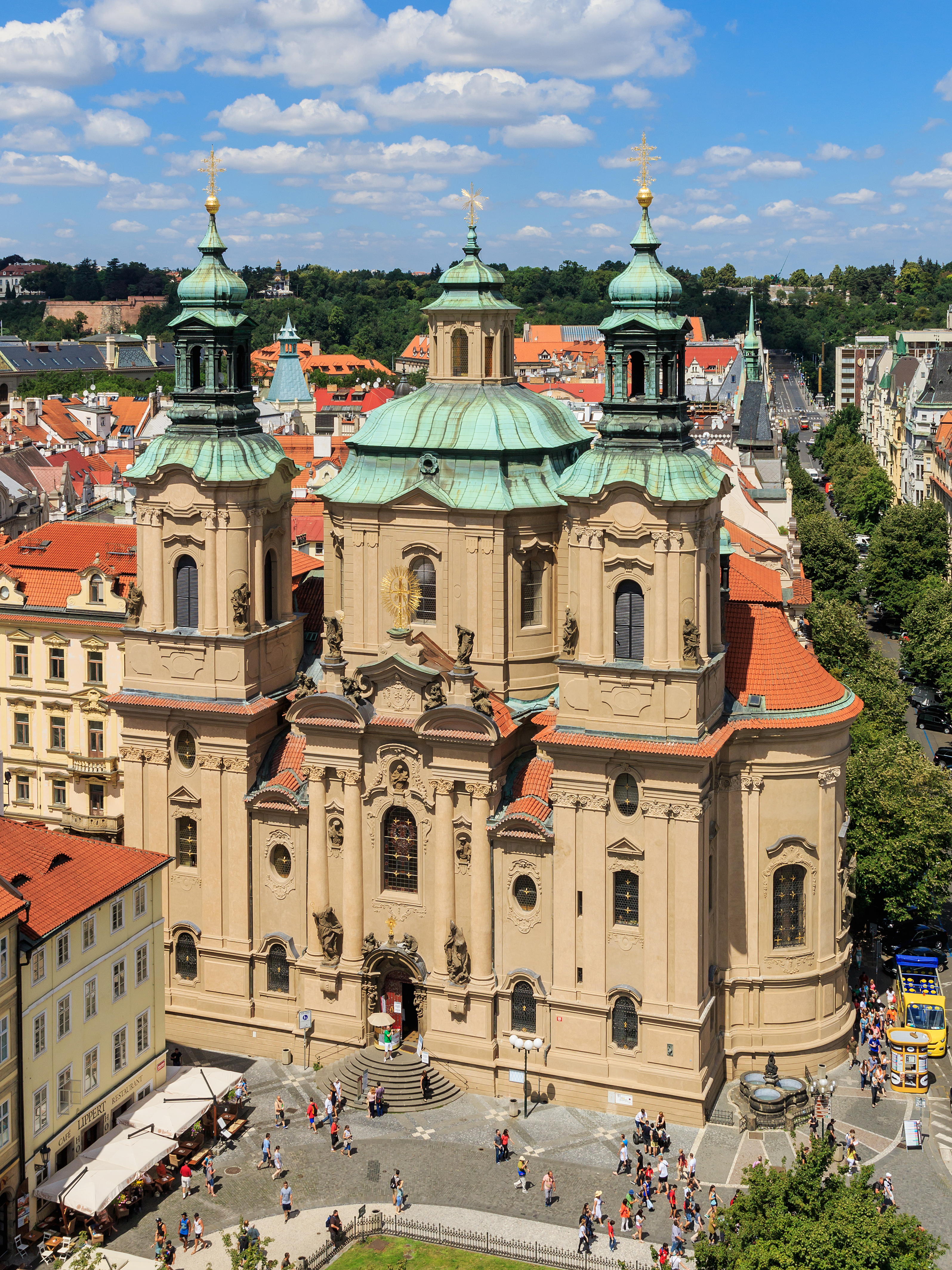 View from the tower of Old Town Hall in Prague (Czech Republic)